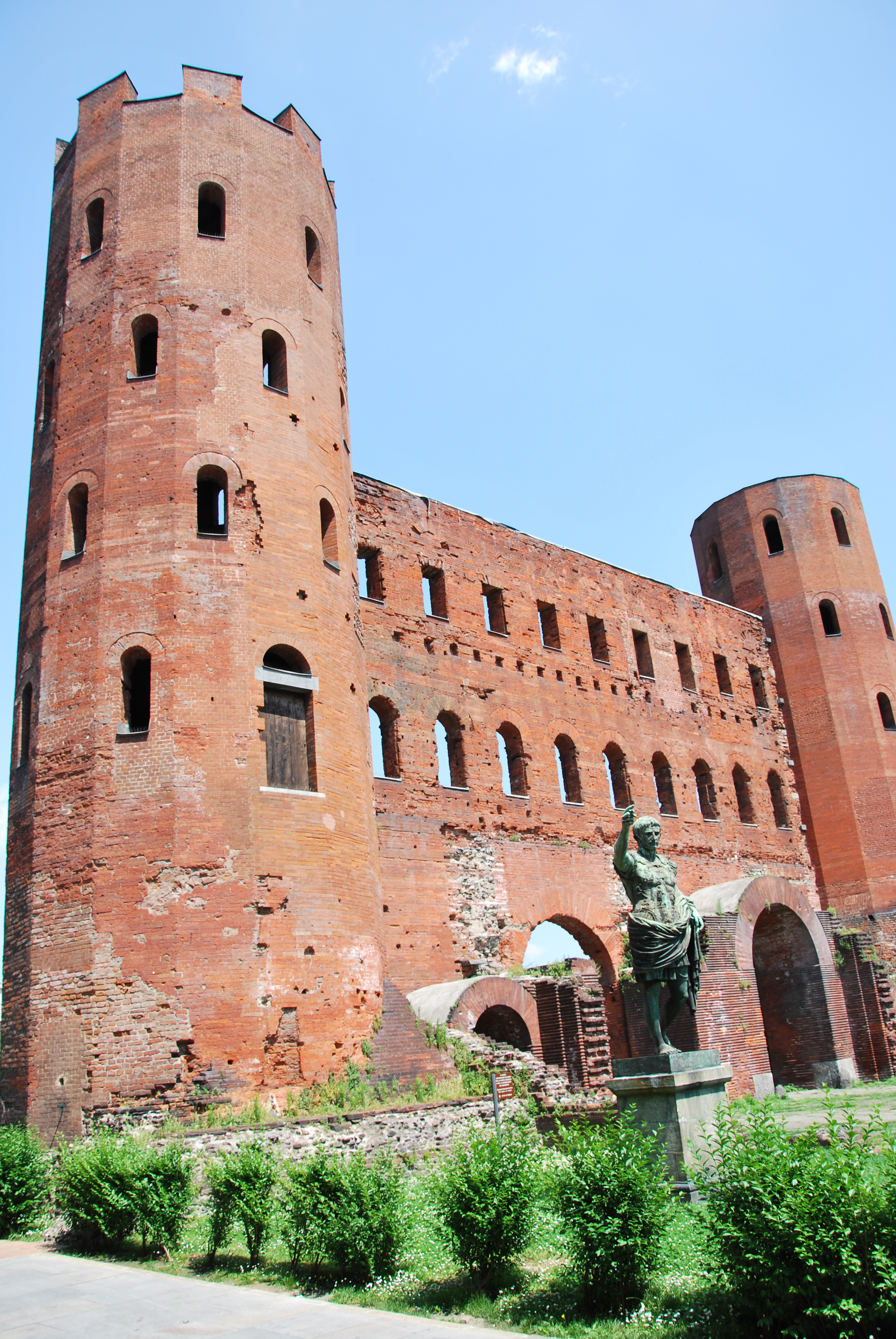 porta palatina palatine towers, turin torino